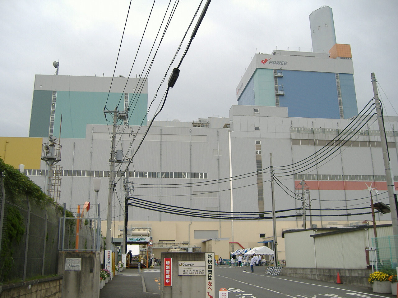 J-Power Isogo Thermal Power Station(Yokohama, Japan)